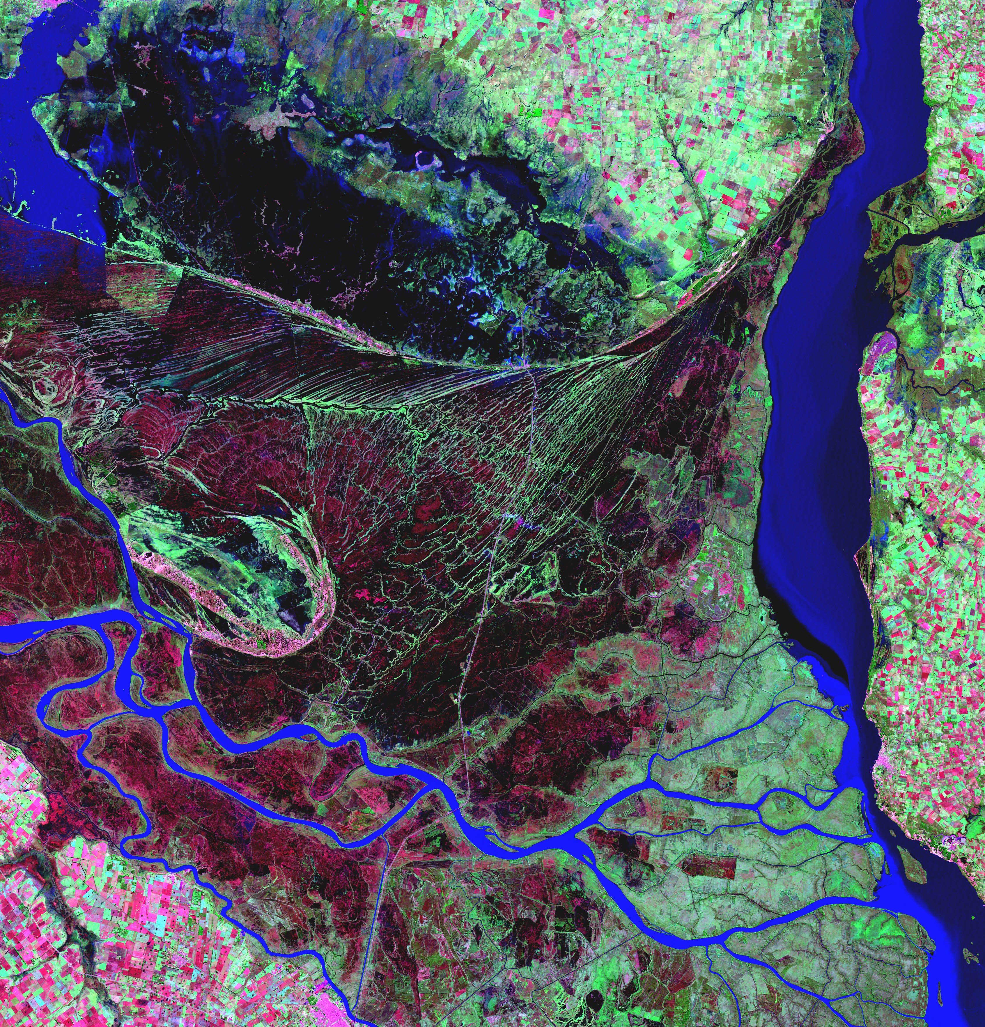 Descripción original (NASA): The Parana River delta is a huge forested marshland about 20 miles northeast of Buenos Aires, Argentina. The area is a very popular tour destination. Guided boat tours can be taken into this vast labyrinth of marsh and trees. The Parana River delta is one of the world's greatest bird-watching destinations. This image highlights the striking contrast between dense forest and wetland marshes, and the deep blue ribbon of the Parana River. This image was acquired by Landsat 7's Enhanced Thematic Mapper plus (ETM+) sensor on May 26, 2000. This is a false-color composite image made using shortwave infrared, near infrared, and green wavelengths.